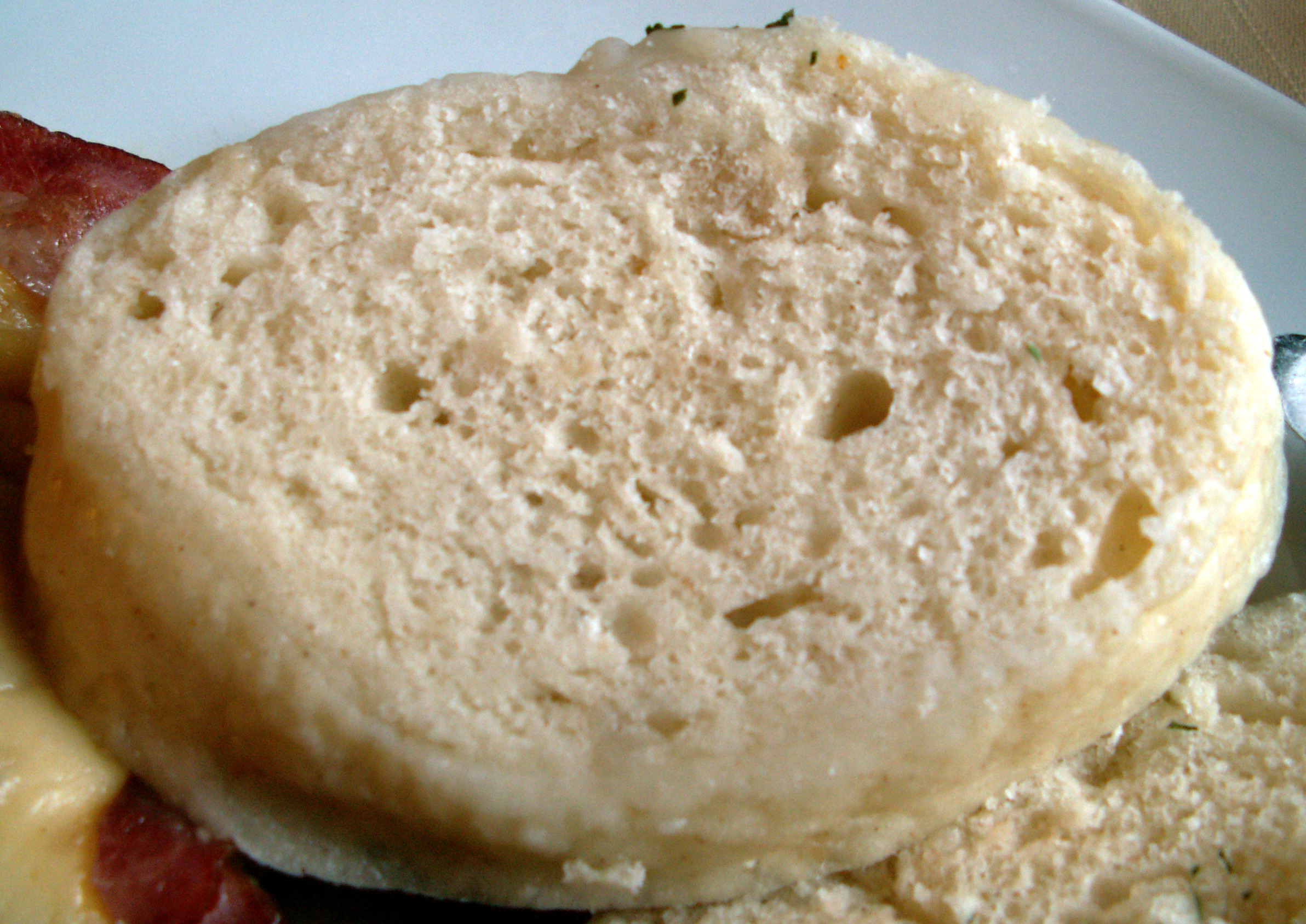 Knedlik, a flour dish of the Czech cuisine